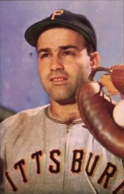 Pittsburgh Pirates catcher Joe Garagiola. Levels and saturation adjusted.